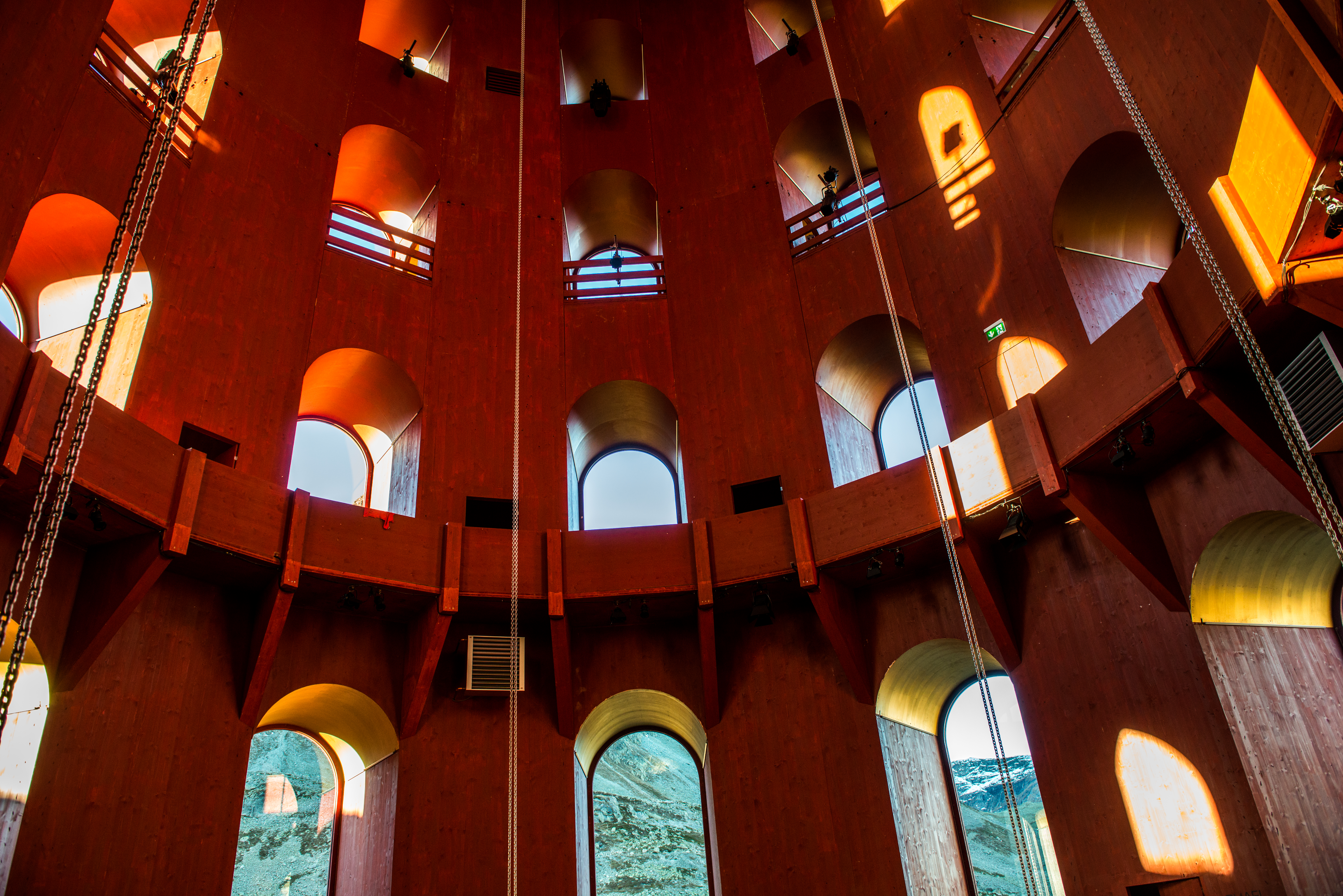 Juliertheater, House of theater of Origen Festival Cultural on Julierpass (Surses/Silvaplana, Grison, Switzerland)